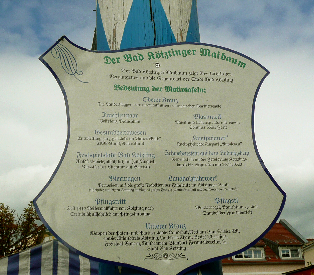 Maibaum description at Bad Kötzting